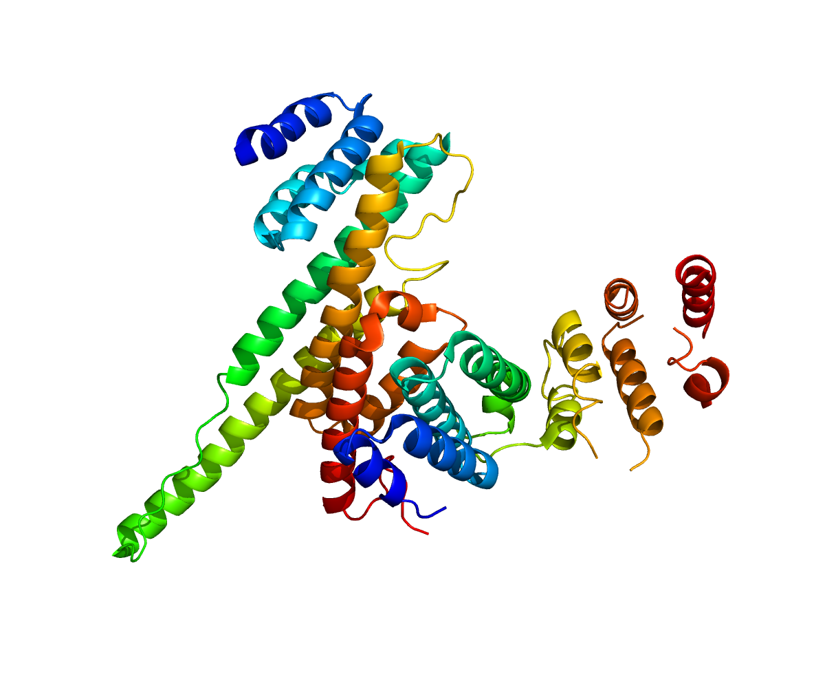 Structure of protein NUP107 (left) in complex with NUP133 (right). Based on PyMOL rendering of PDB 3CQC.